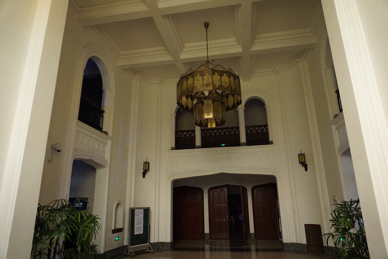 Shanghai No. 3 Girls' High School, Five-Four lecture building entrance